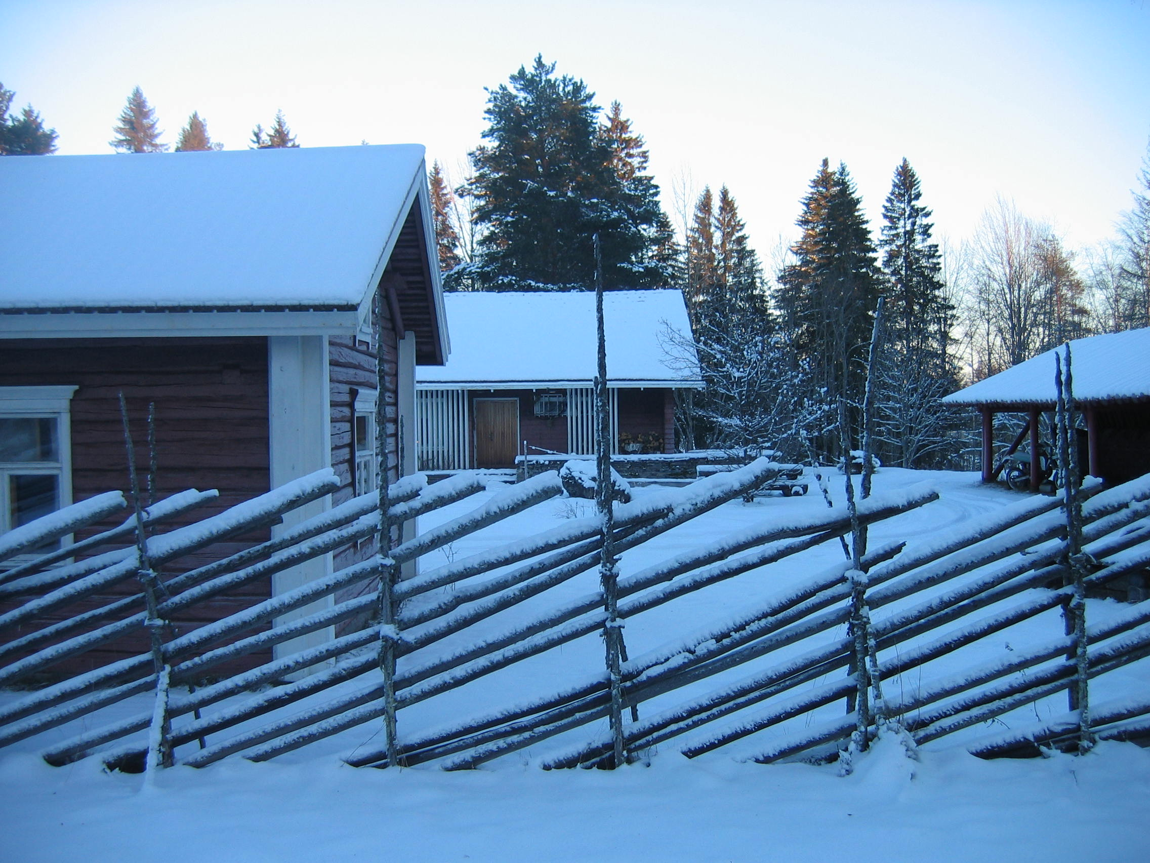 A view to the Uutela area in Jylhämä, Vaala, Finland